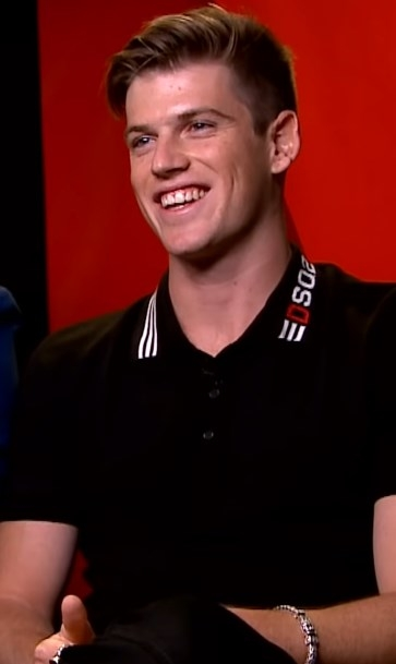 Spanish actor Miguel Bernardeau.